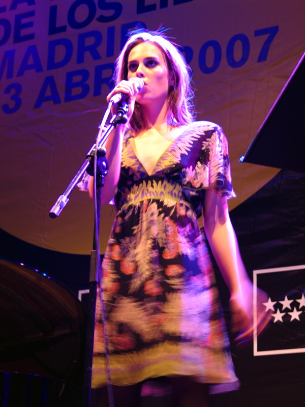 Sophie Auster.